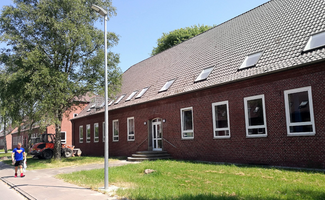 Sengwarden DP. Camp